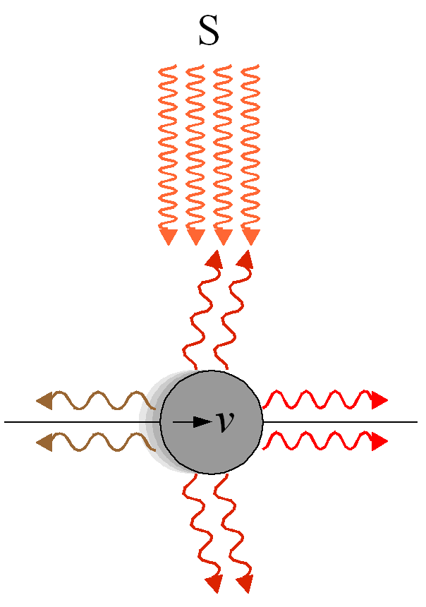 Drawing to illustrate the Poynting-Robertson effect